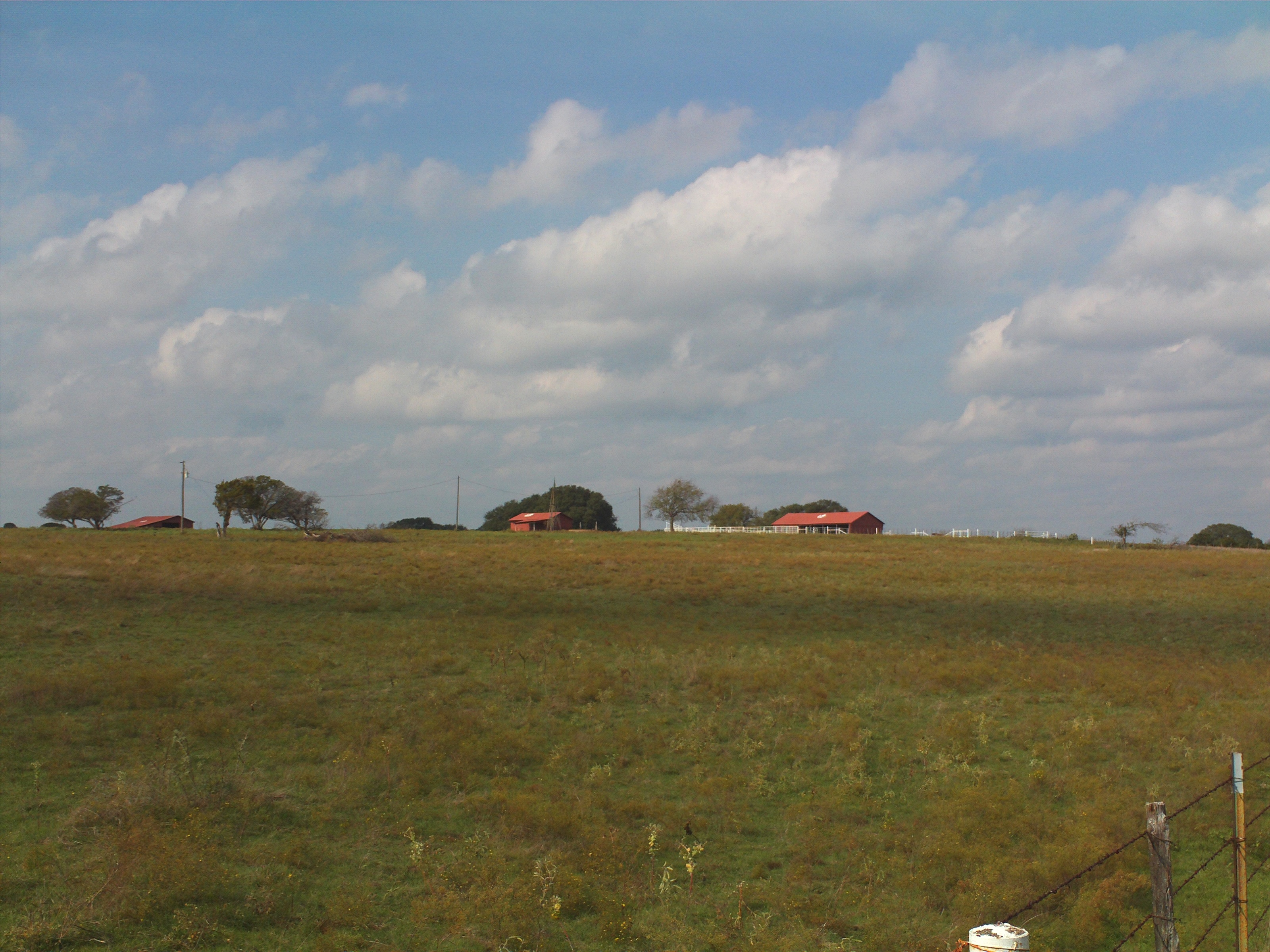 Existing cattle barns at Lake Whitney Ranch.